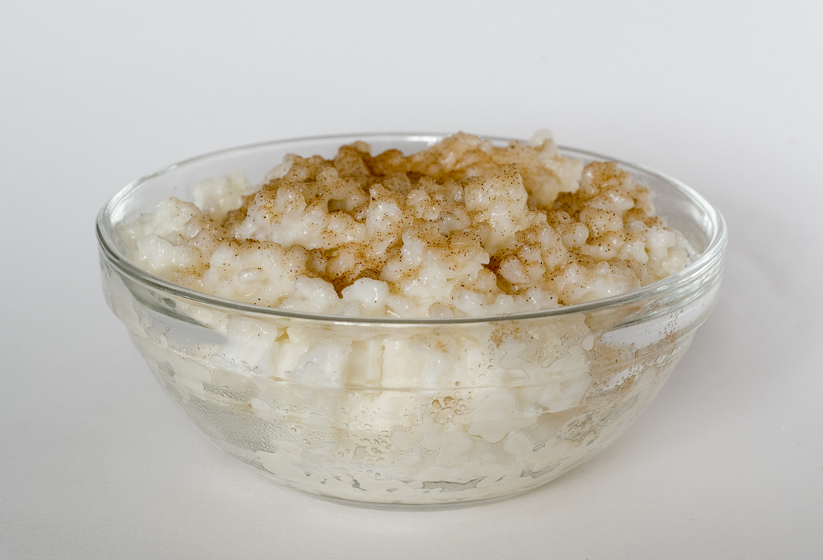 Rice pudding with cinnamon and sugar